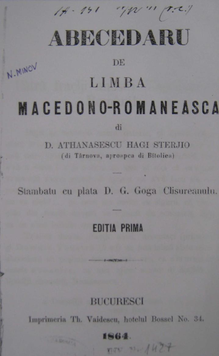 Abecedaru_de_Limba_Macedono-Romaneasca